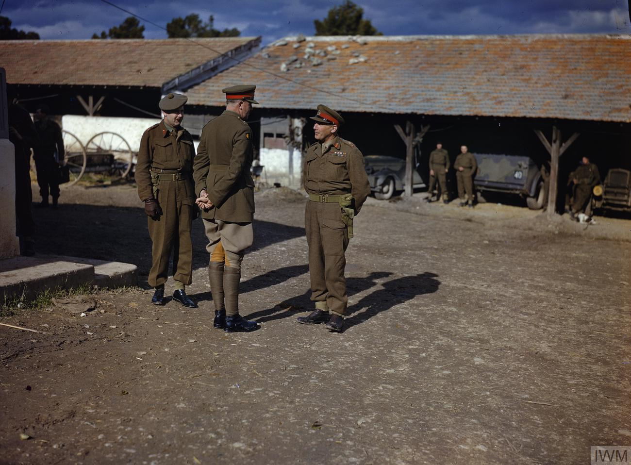 The British Army in North Africa, January 1943 The Commander of the 1st Army, Lieutenant General K A N Anderson, CB, MC, (right) during a visit to a forward divisional headquarters on the Tunisian front. Brigadier C B McNabb is on the left along with Major General V Evelegh.